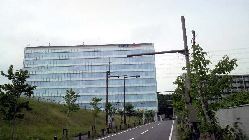 Fjitu YRP